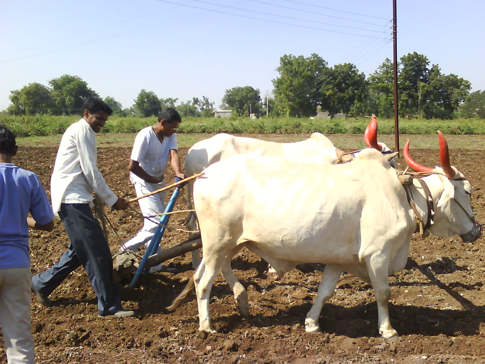 agriculture